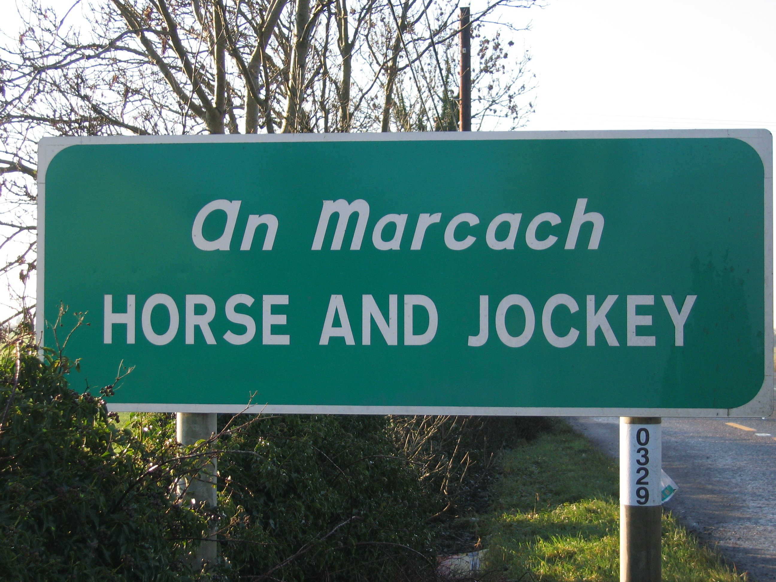 Sign on the N8 in Tipperary (Sarah777 02:57, 27 December 2006 (UTC))